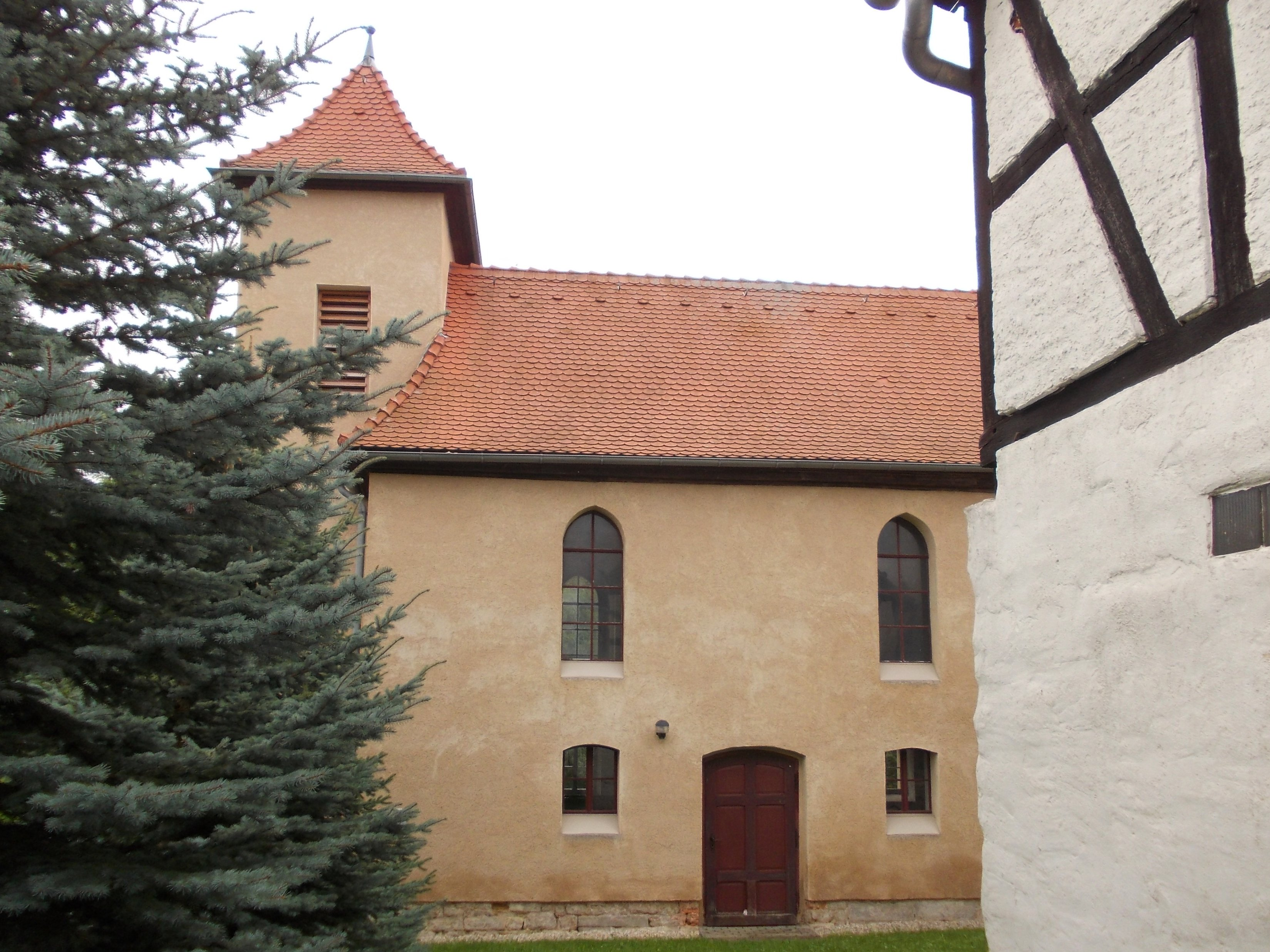 Breitenbach church (Wetterzeube, district: Burgenlandkreis, Saxony-Anhalt)